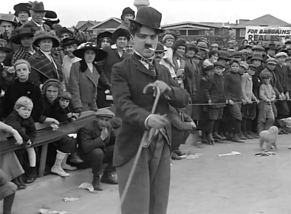 Screenshot of Charlie Chaplin in Kid Auto Races at Venice (1914)